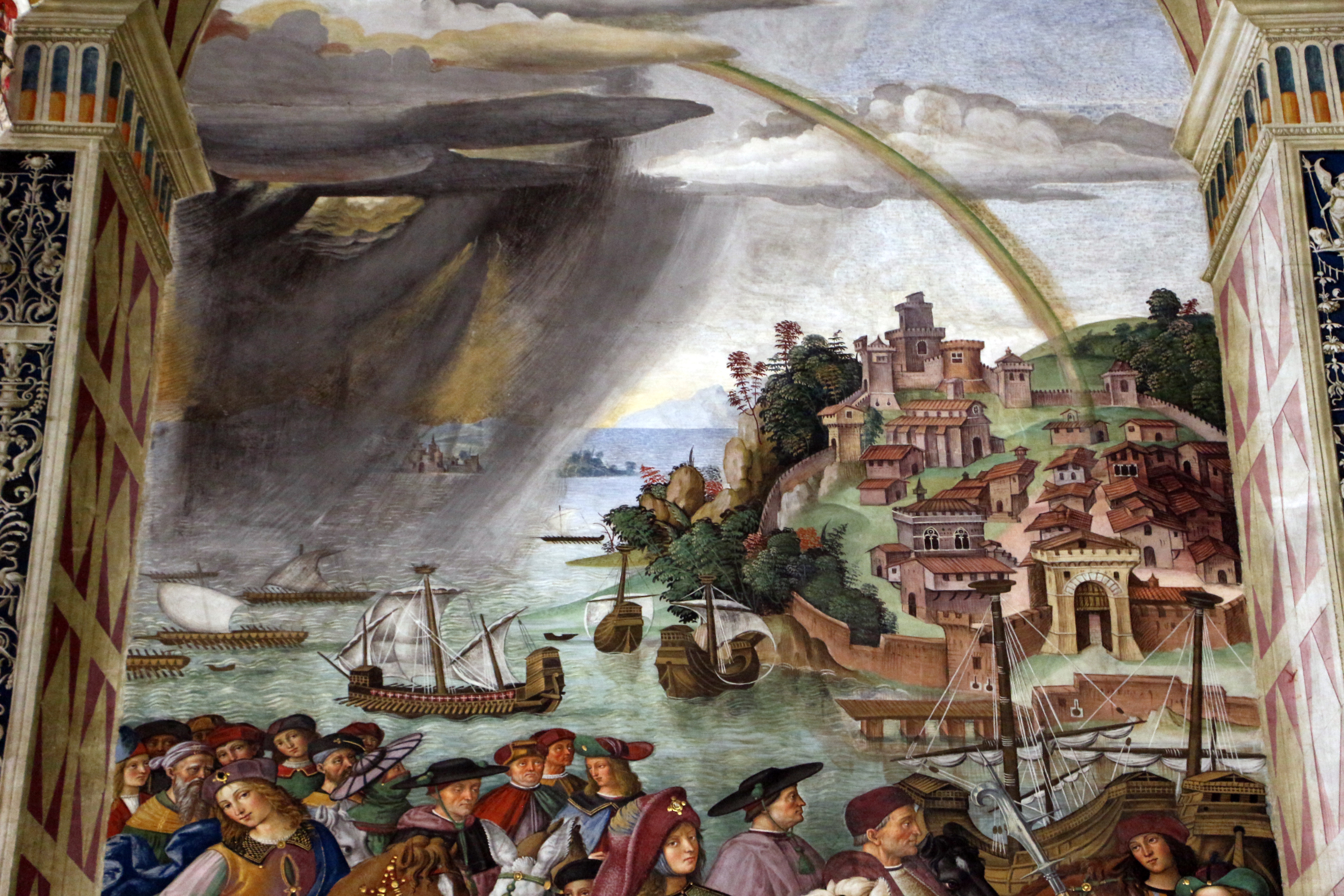 Cathedral (Siena) - Piccolomini Library - Frescos of Pius II, 1